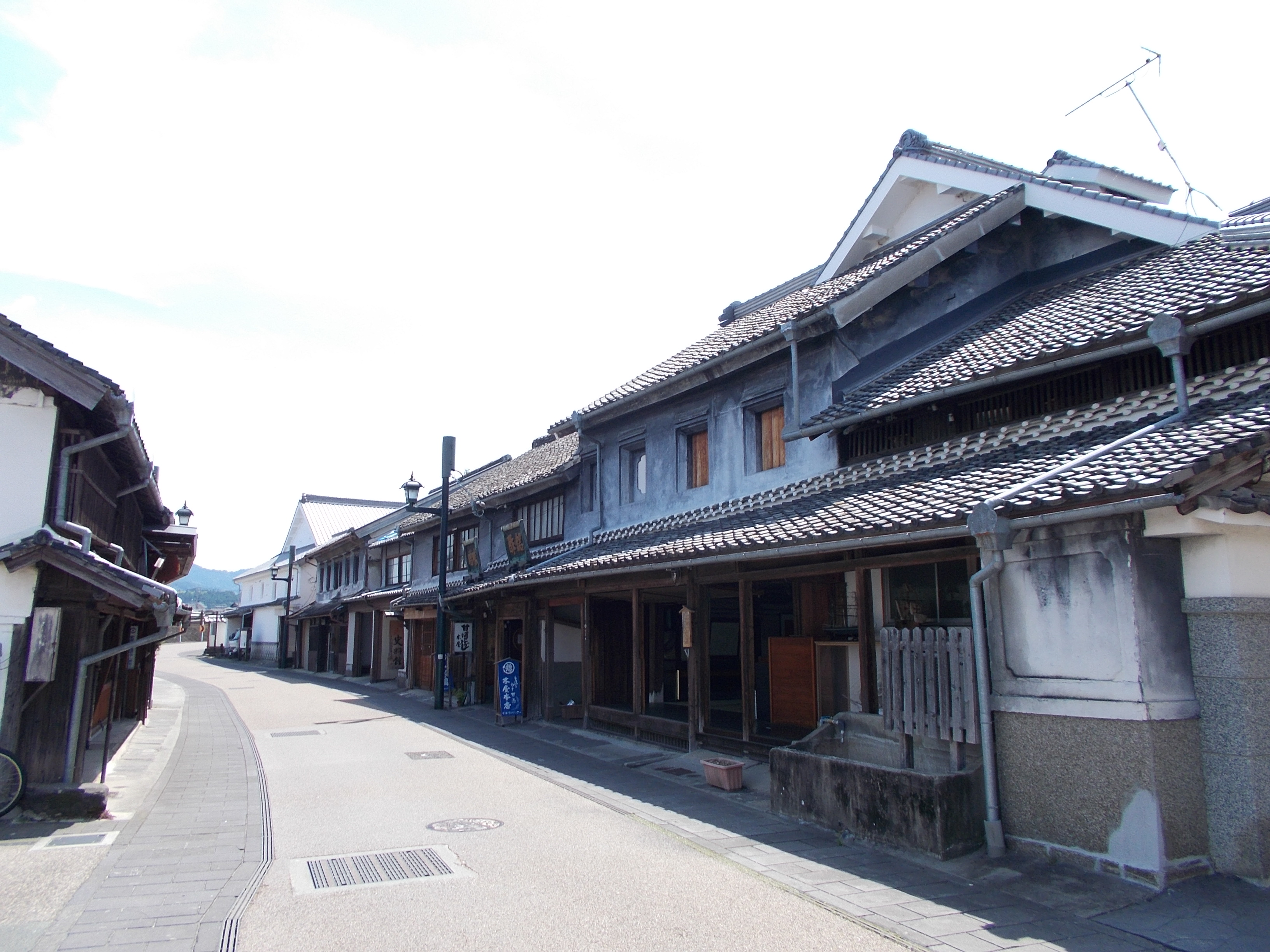 Yamaga-shuku in Yamaga, Kumamoto, Japan. Yamaga was an old post town of the Satsuma Kaido connecting Kagoshima and Kokura during the Edo period.